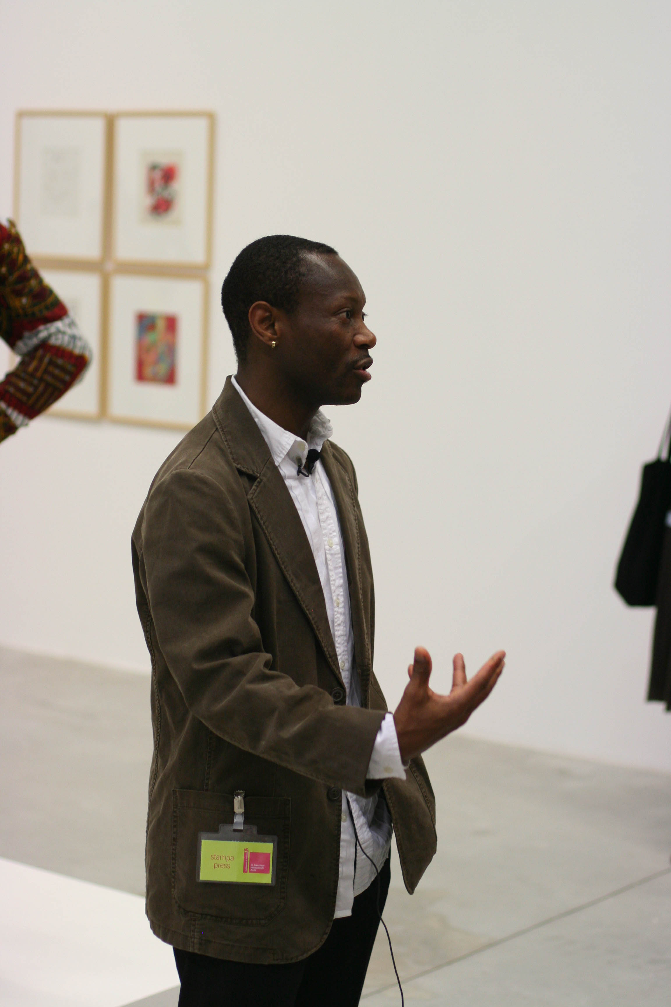 8442 Venice Biennale, Arsenale, professor Olu Oguibe discussing Yinka Shonibare's work with an interviewer